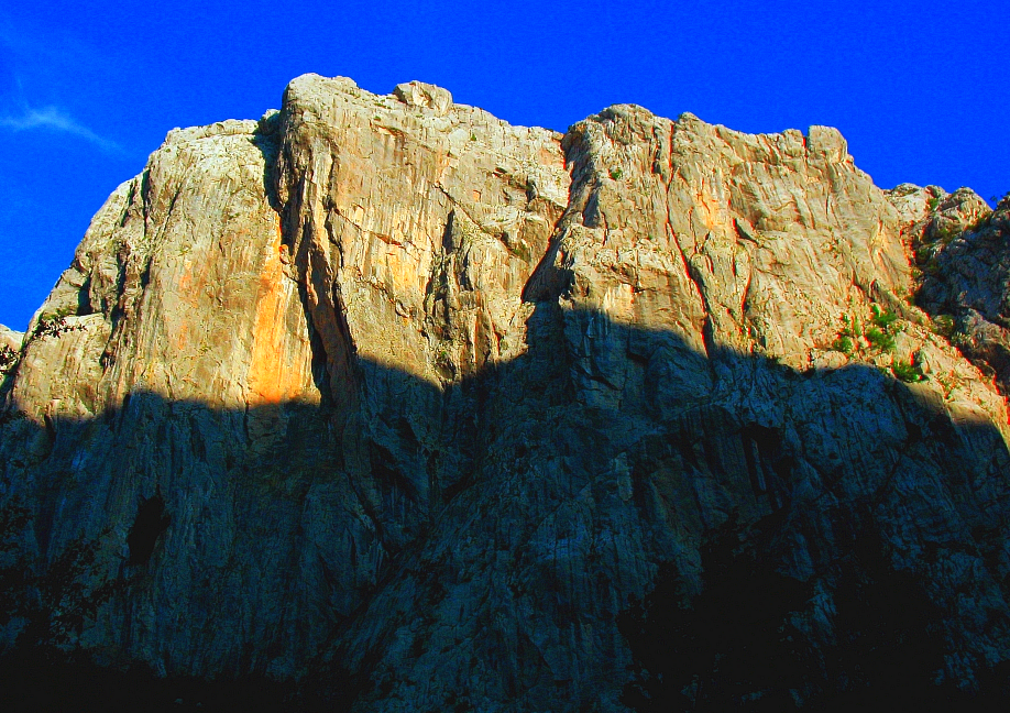 Anica Kuk wall at sunset. Anica kuk (712 m/2350 ft) has some of the best-known routes in the Paklenica climbing area.